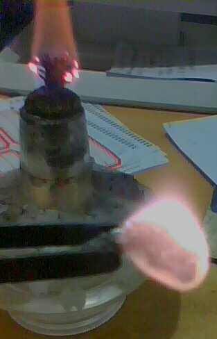 Arsenic burning in the air